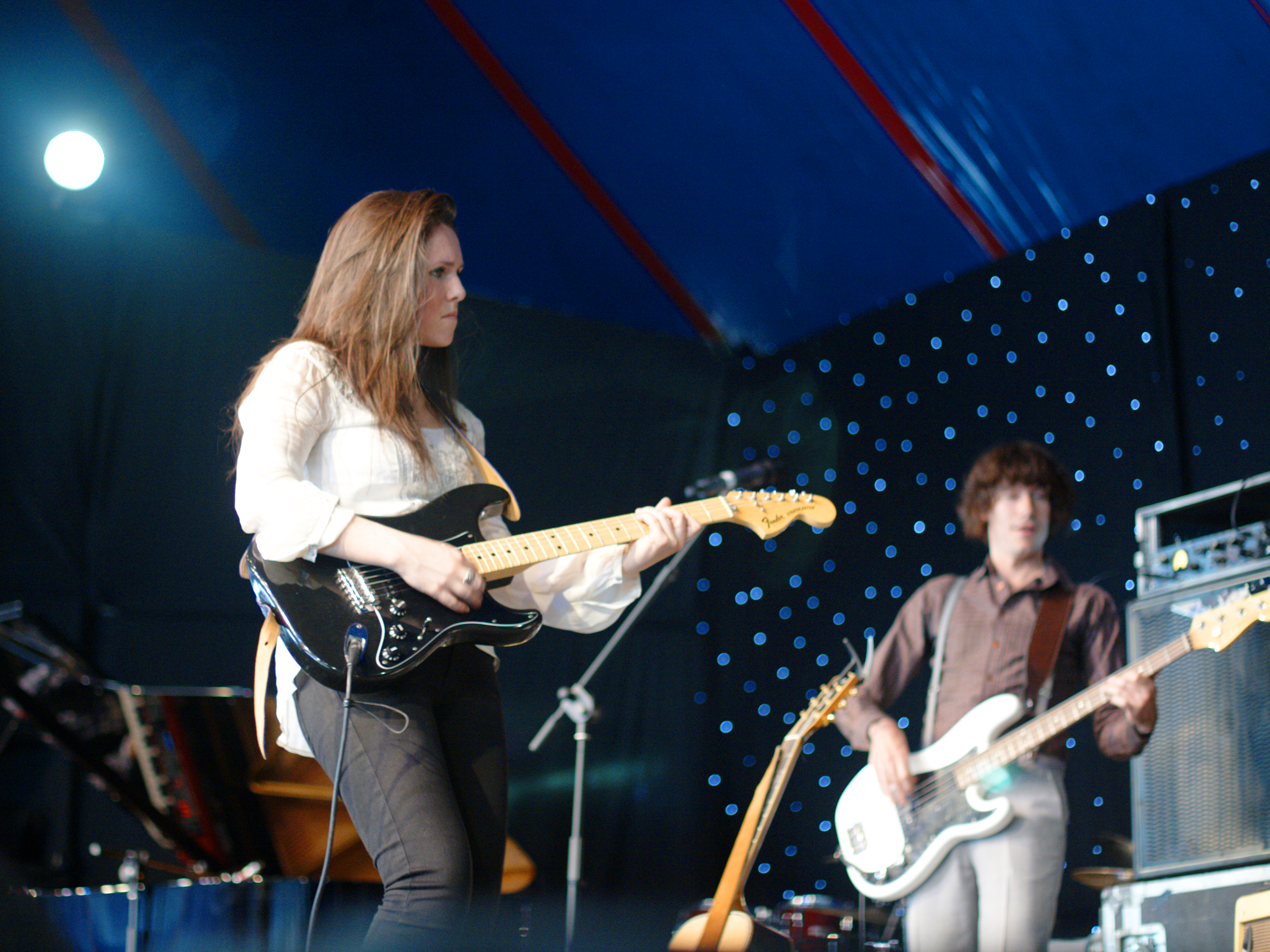 Sandi Thom at the Ealing Blues Festival, hosted in Walpole Park Ealing.